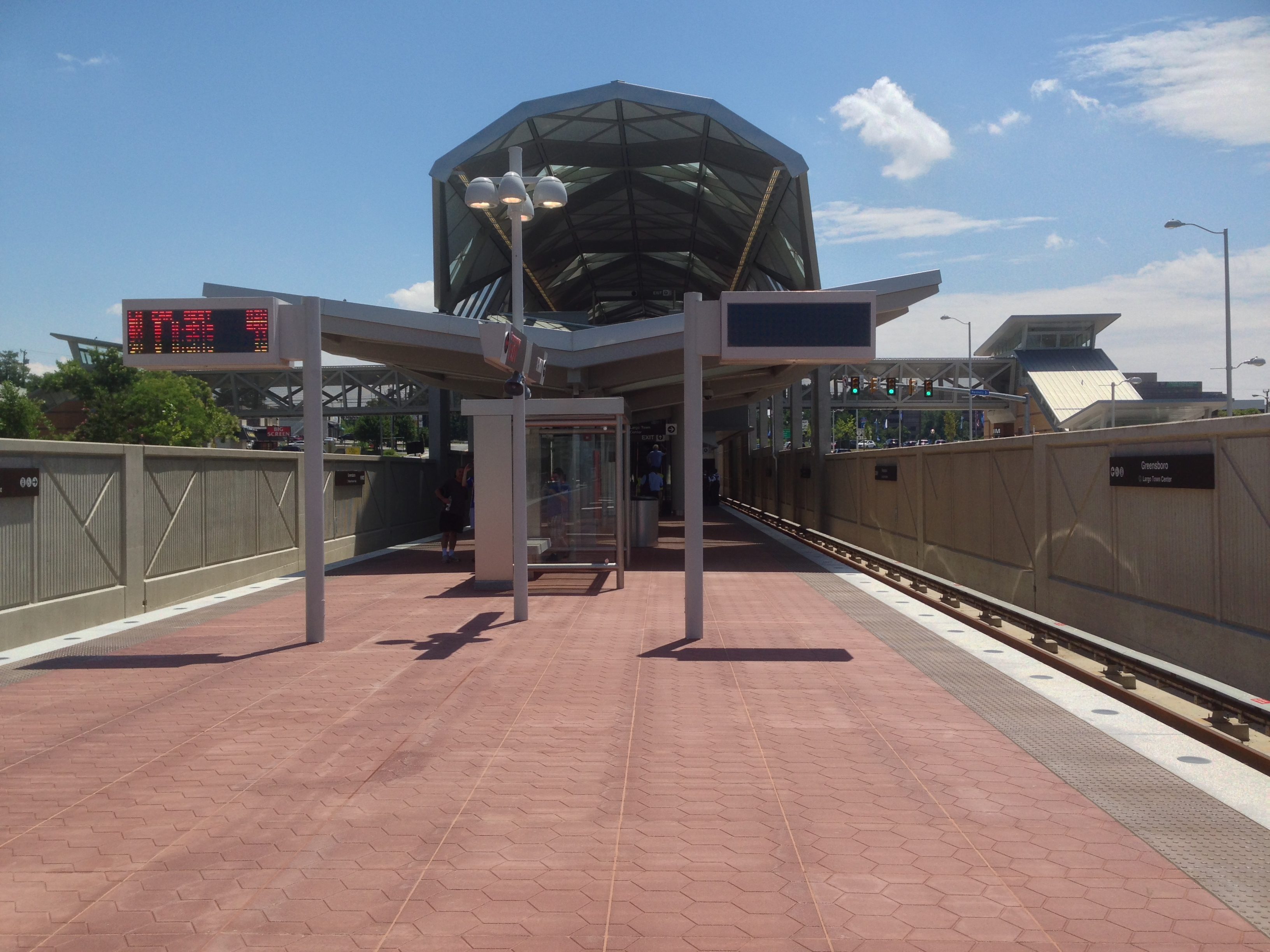 Platform of the Greensboro WMATA station on its first day of operation